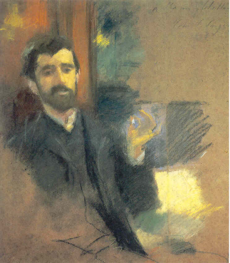 Portrait of Paul Helleu